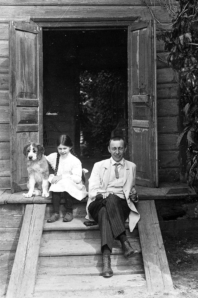 Sergei Rachmaninoff with daughter Irina at Ivanovka, 1913